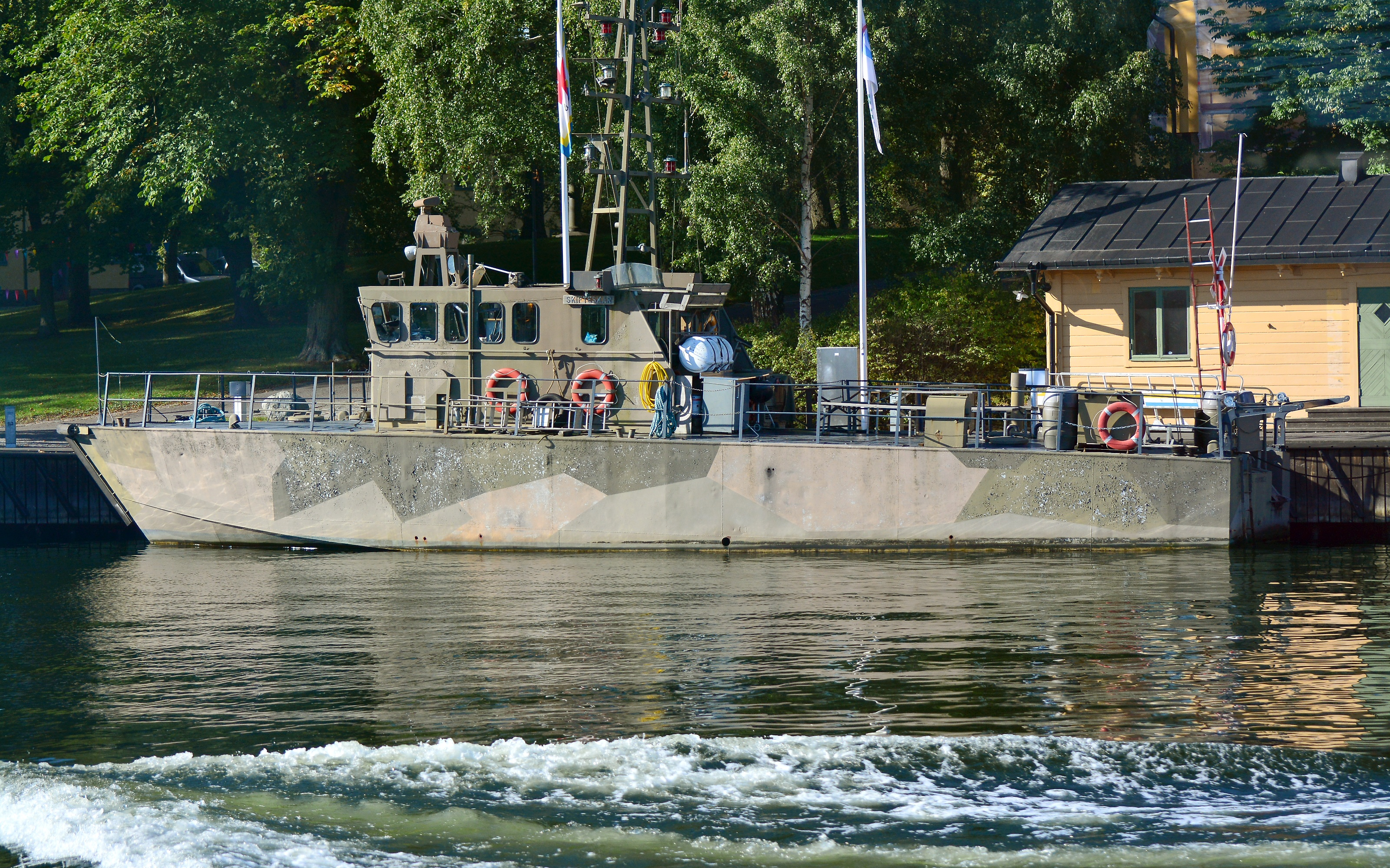 The Swedish patrol craft HMS Skifteskär by Skeppsholmen in Stockholm, Sweden.